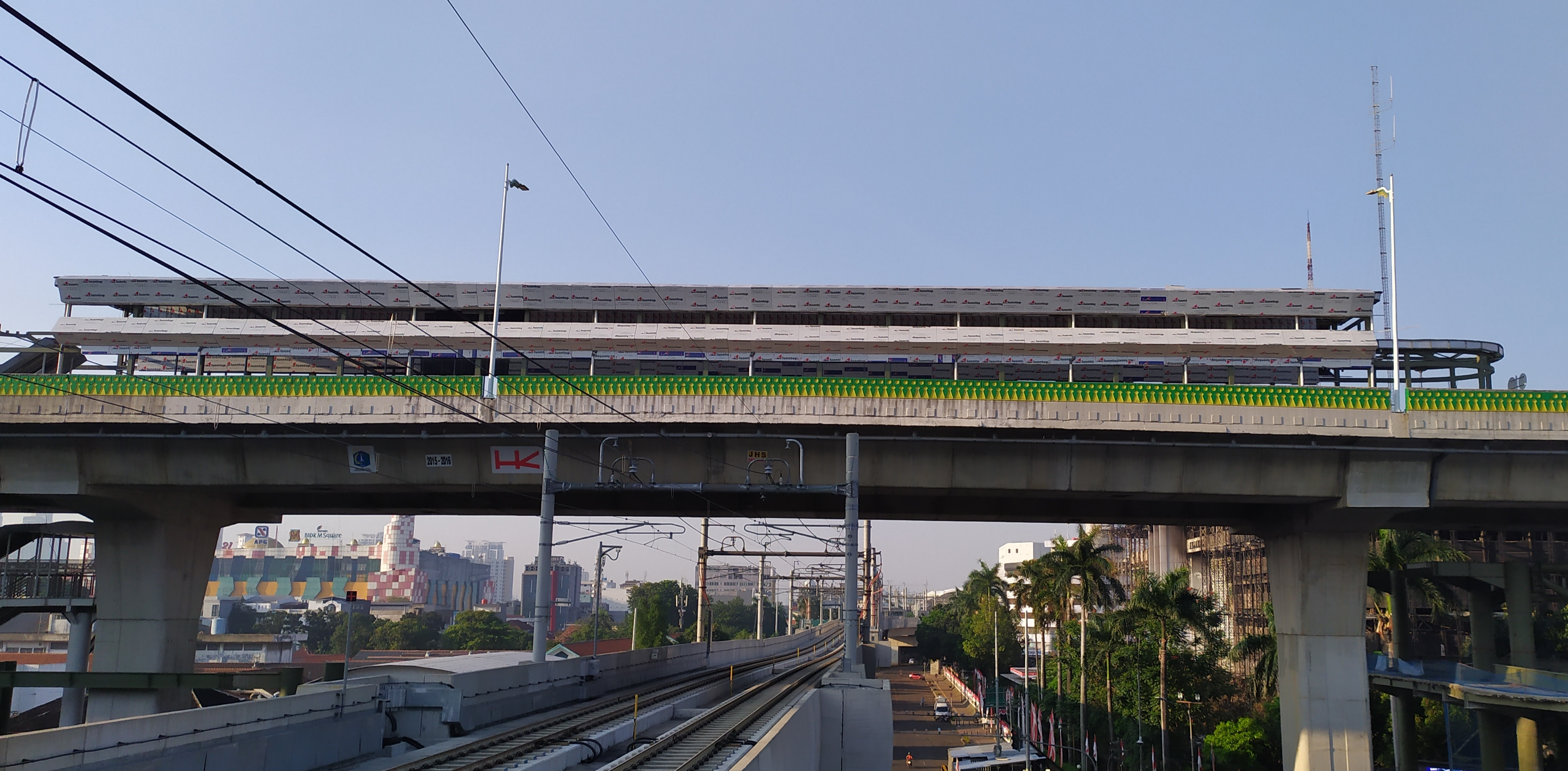 Bangunan Stasiun BRT CSW dalam masa pembangunan.